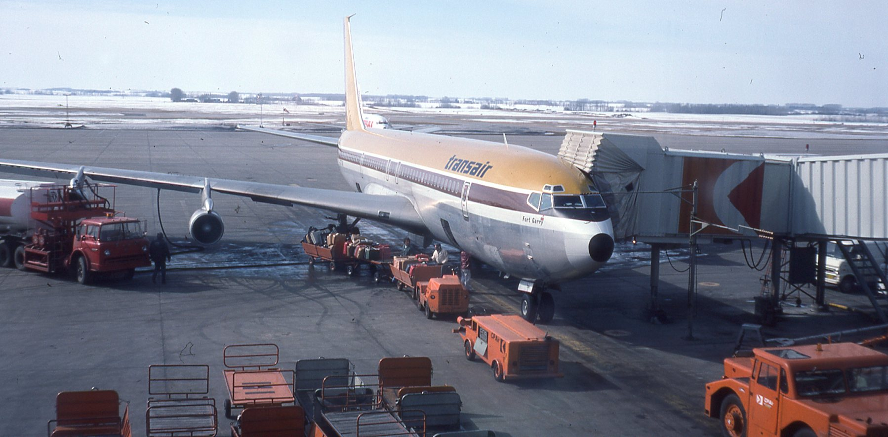 Transair Boeing 707-351C C-GTAI (19434/566) "Fort Garry" at Edmonton International Airport (YEG)